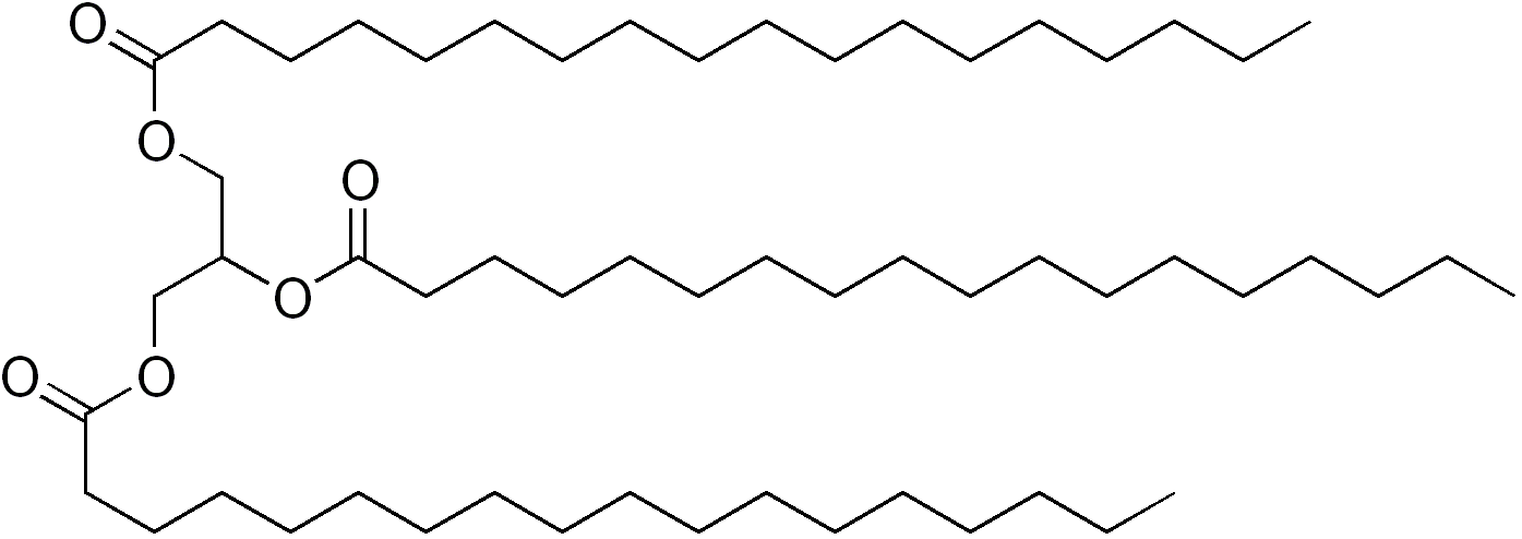 chemical structure of stearin